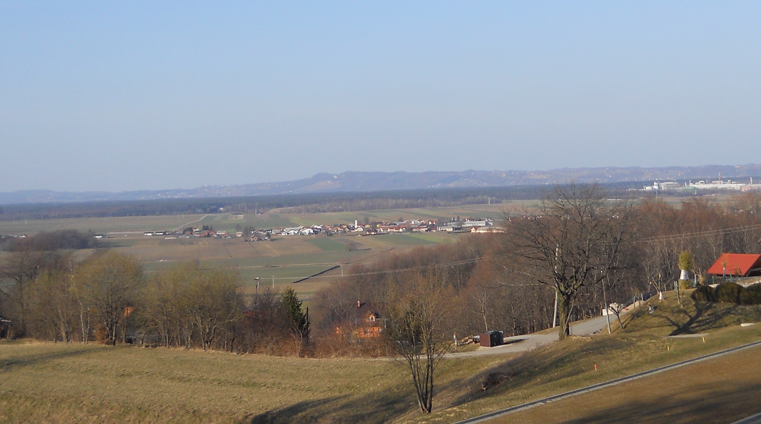 The Drava Plain from Ptuj Mountain, Majšperk, Slovenia.